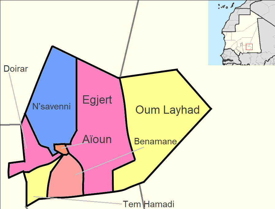 A map of the communes in Aïoun El Atrouss